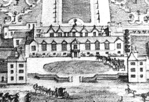 Old Wanstead House before 1715, the residence of Sir Josiah Child, 1st Baronet. Detail from a view by Jan Kip and Leonard Knyff, probably published in Britannia Illustrata of 1708.